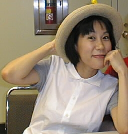 Yoko Kanno poses for a picture with a fan on Otakon 1999. This photo was cropped from original. Thanks goes to author Ferricide.